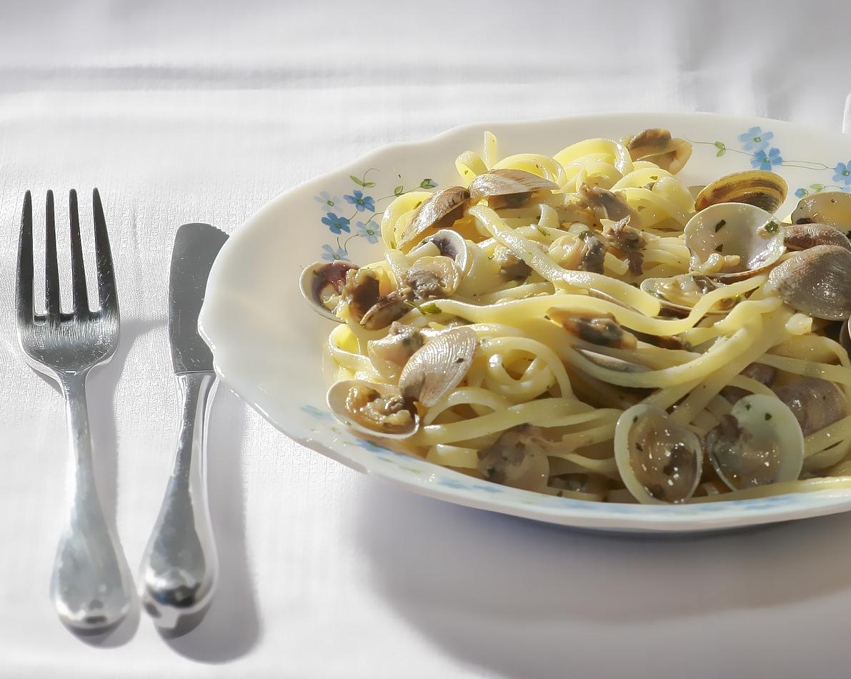 Trenette pasta with clam suace